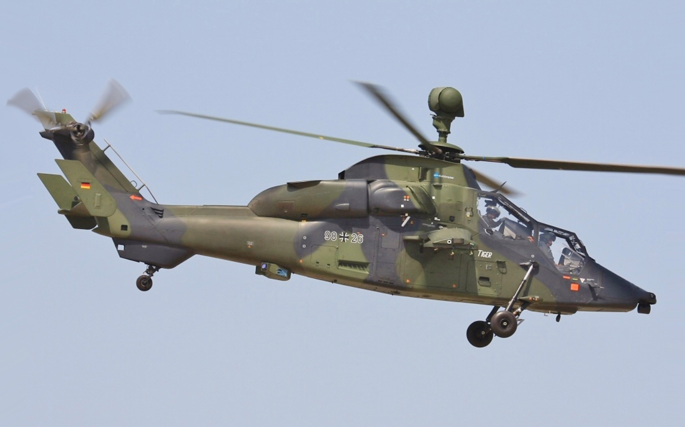 EC-665 Tiger UHT, Germany - Army